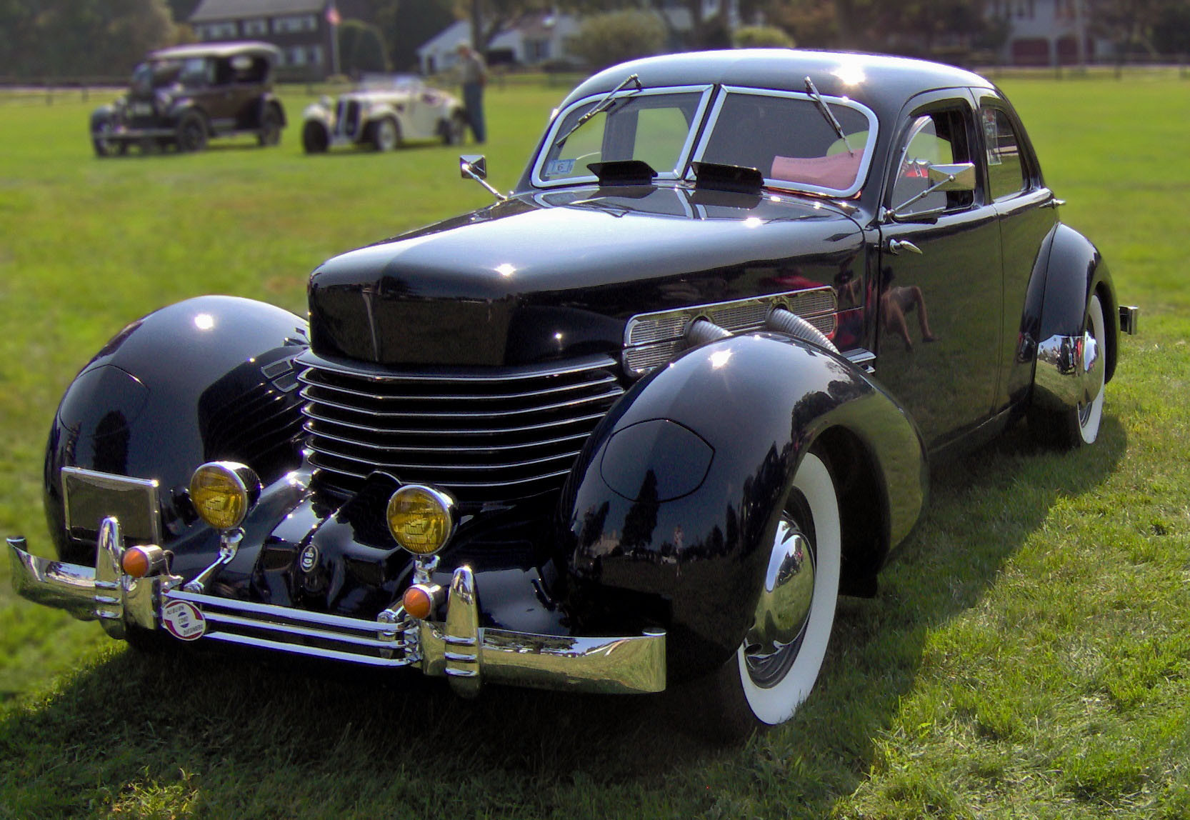 I edited the original image for use on my ad-supported automotive website (Ate Up With Motor), removing the people in the foreground, obscuring the license plate, and touching up the lighting. This is the edited version.